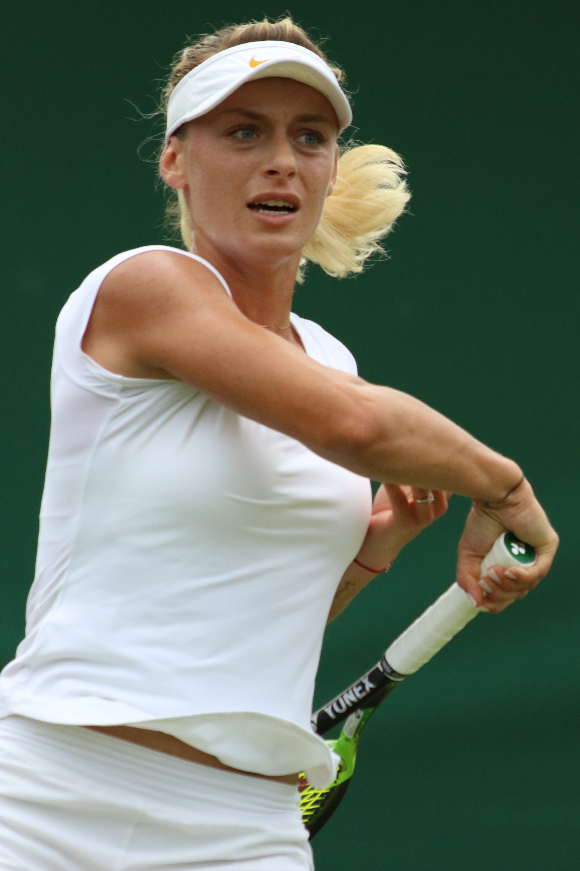 2019 Wimbledon Qualifying Tournament.